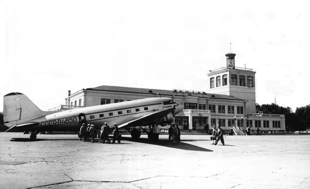 Aeroflot Lisunov Li-2 at Kiev Zhulyany Airport